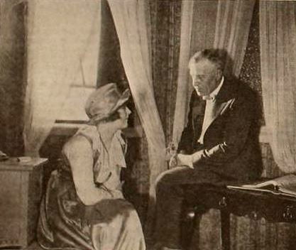 American actress Marion Davies and author Robert W. Chambers, page 3482 of the April 17, 1920 Motion Picture News.